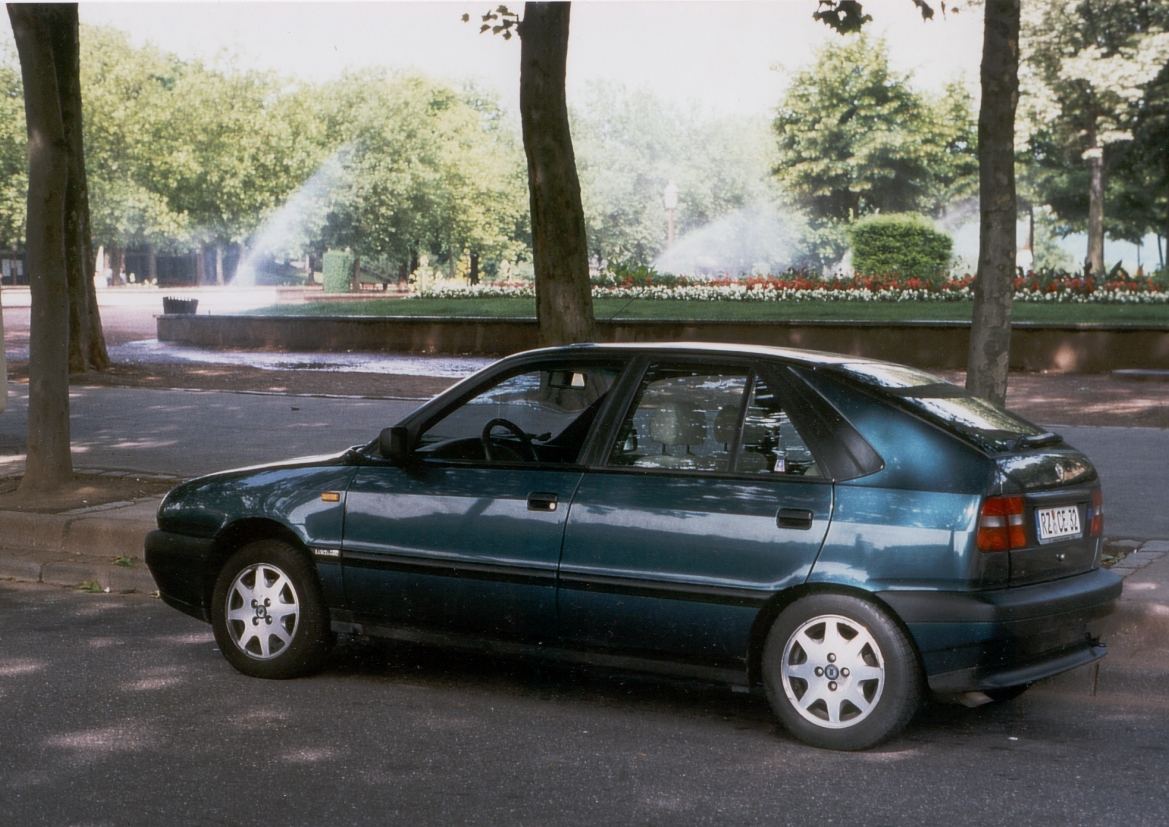 Lancia Delta II (Built in 1993)